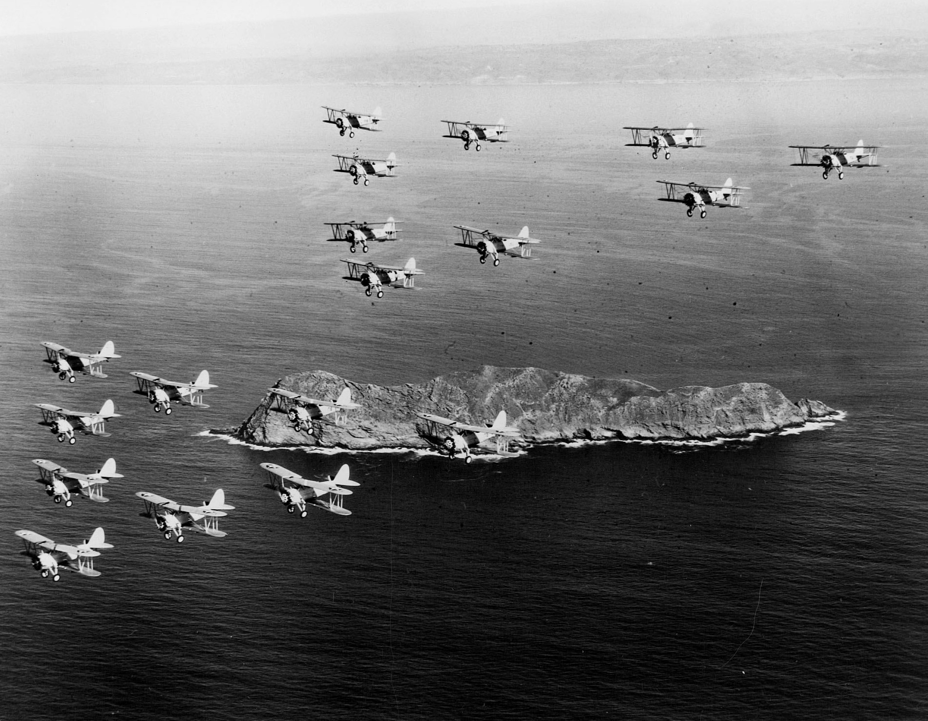 Eighteen U.S. Navy Martin BM-1s and BM-2s of torpedo squadron VT-1S off the coast of San Diego, California (USA), in the early 1930s.